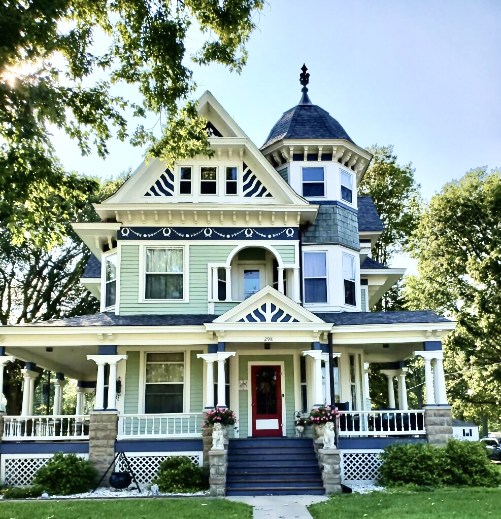 Photo of historic James C. Twiss house